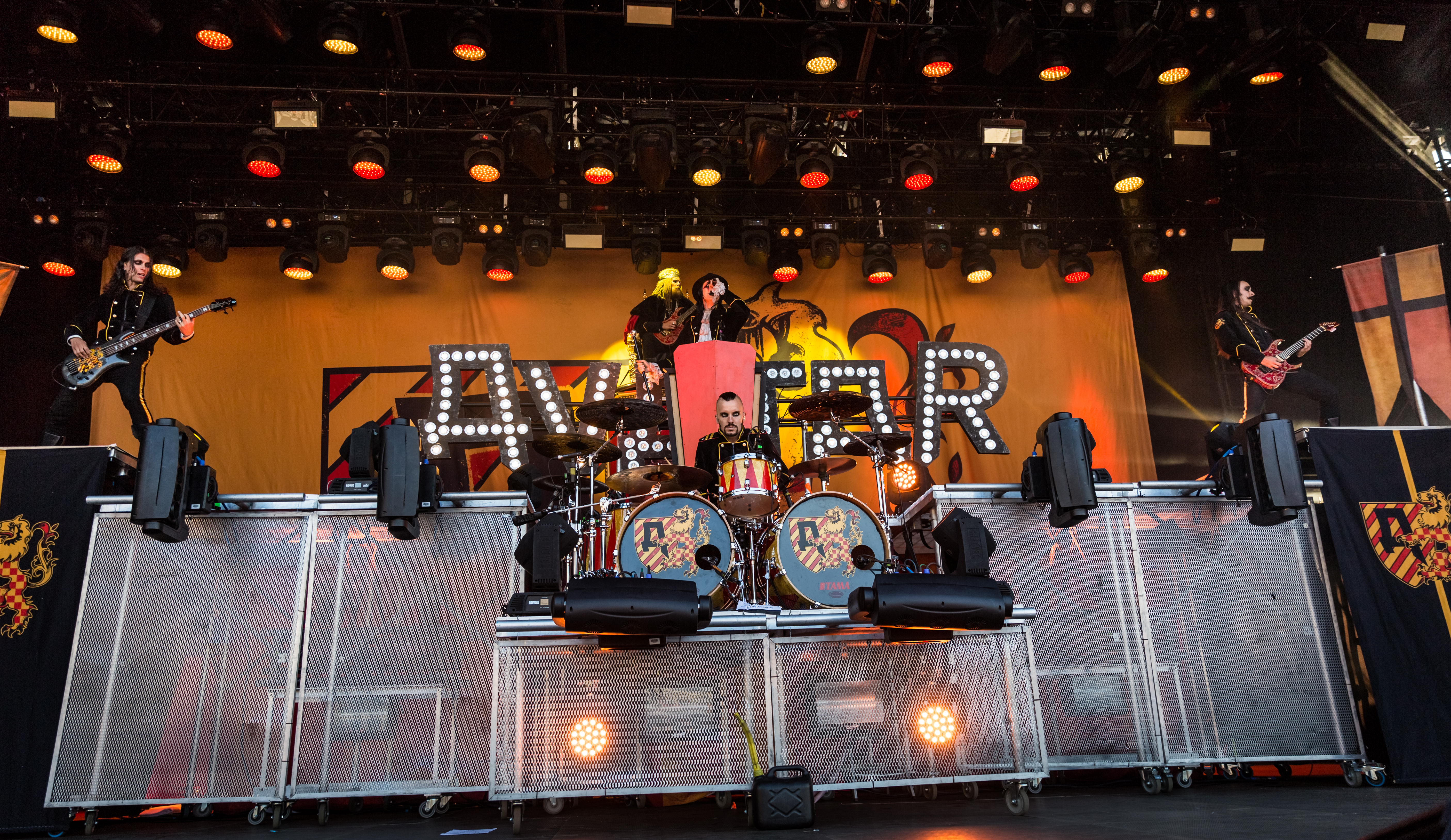 Avatar - Rock am Ring 2018